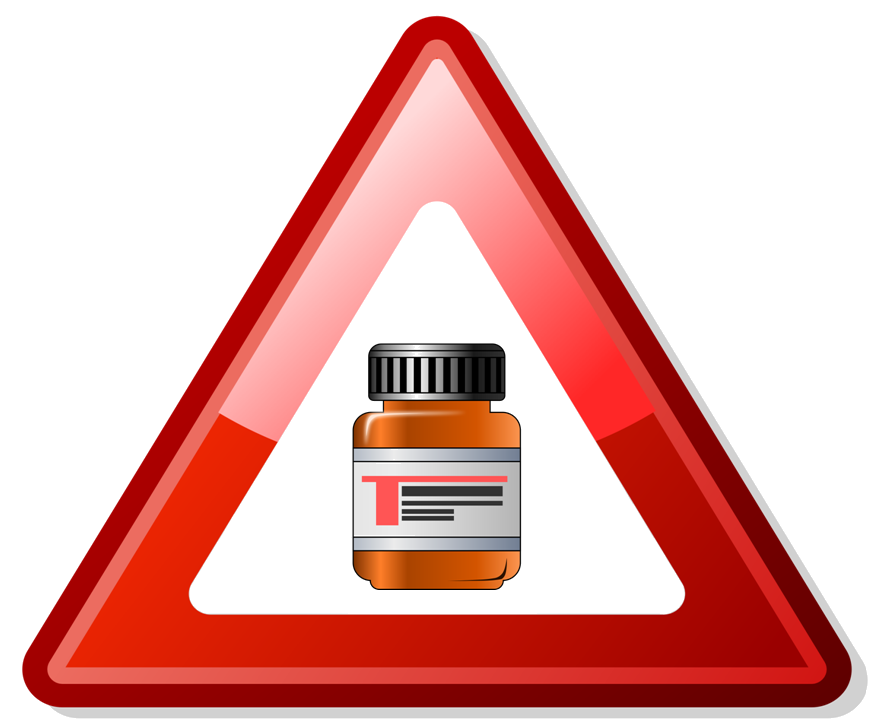 Caution with drugs